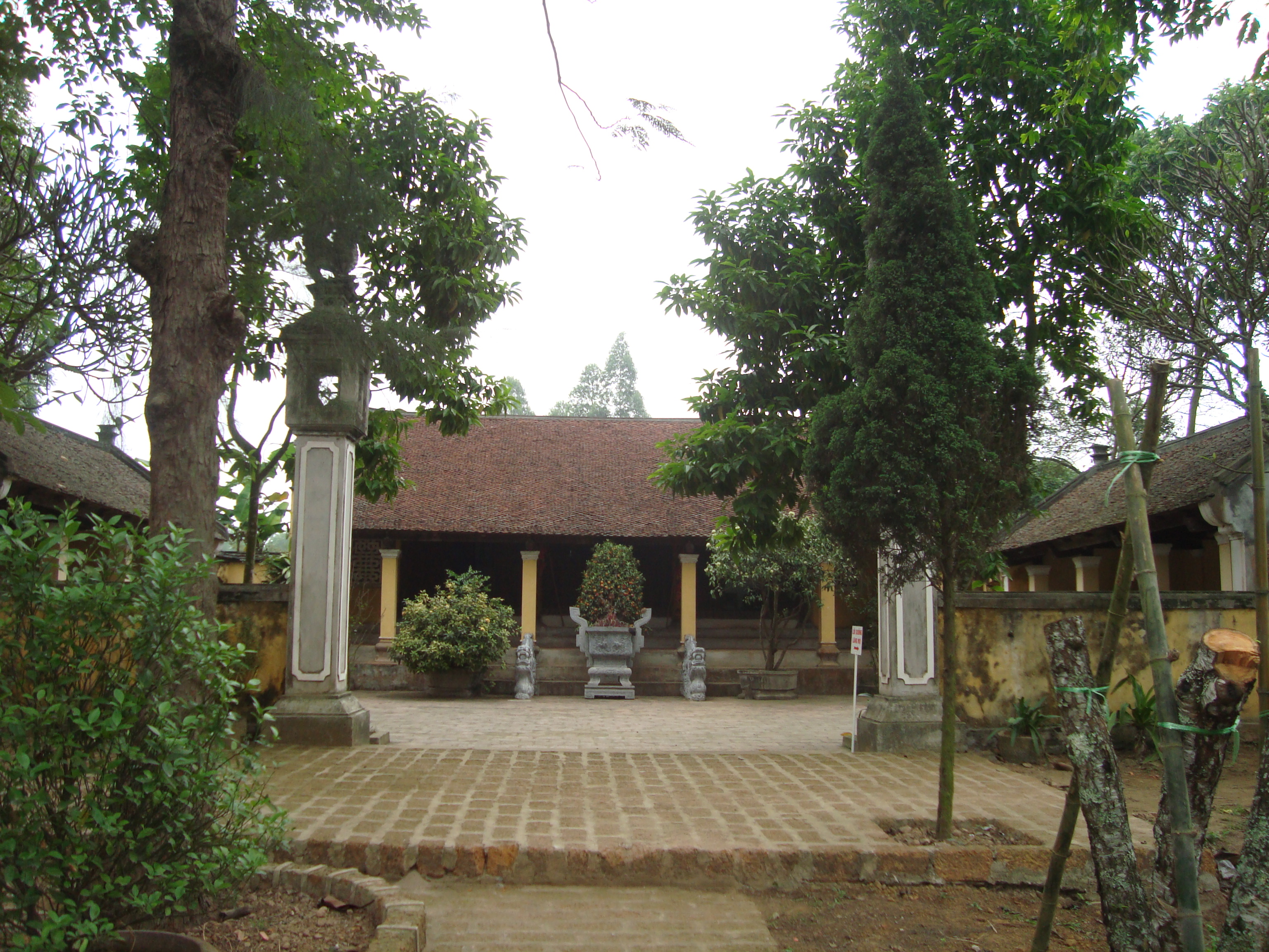 Shrine of King Ngo Quyen in Duong Lam commune, Son Tay town, Ha Noi.